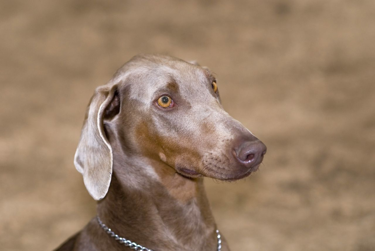 Fawn Colored Mongrel